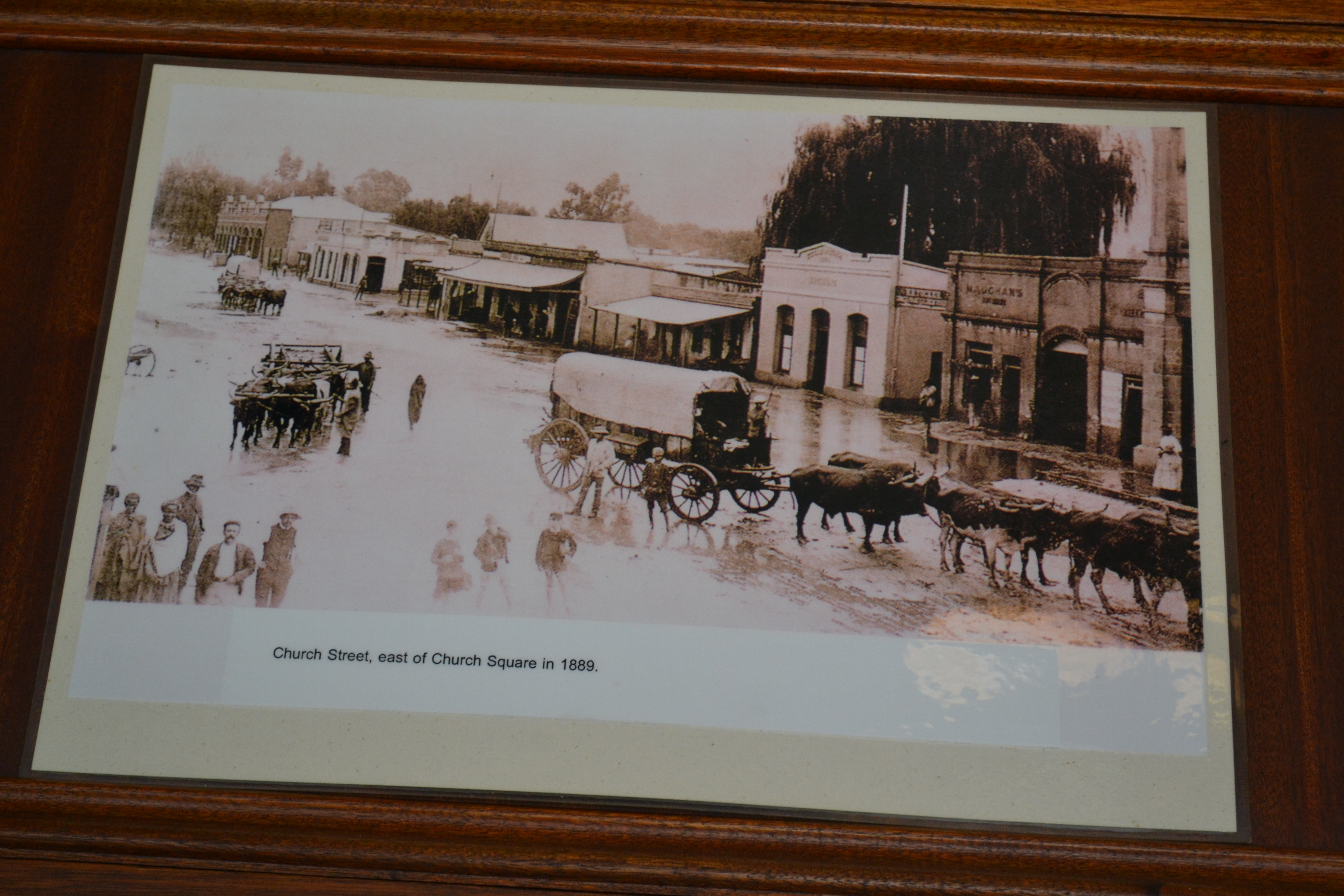 Cafe Riche Church Square Pretoria This media shows a South African Protected Site with SAHRA file reference 9/2/258/0012 .